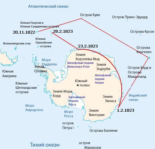 Map of the reported sea voyage of Benjamin Morrell near Antarctica in 1822-23. Positions and dates taken from Morrell's book: Morrell, Benjamin (1832). A Narrative of Four Voyages...etc. New York: J & J Harper. Pages 58–66